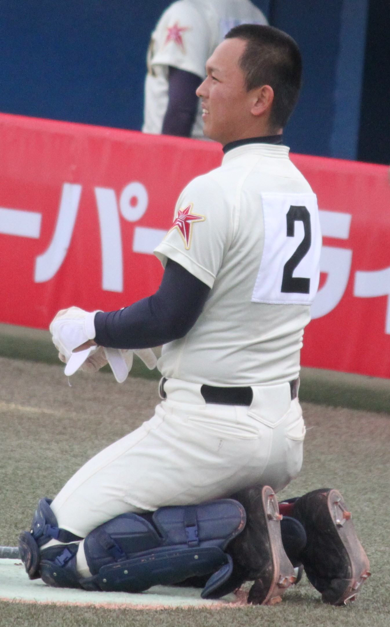 Tatsuhiro Tamura, catcher of the Kosei Gakuin High School, at Meiji Jingu Stadium.